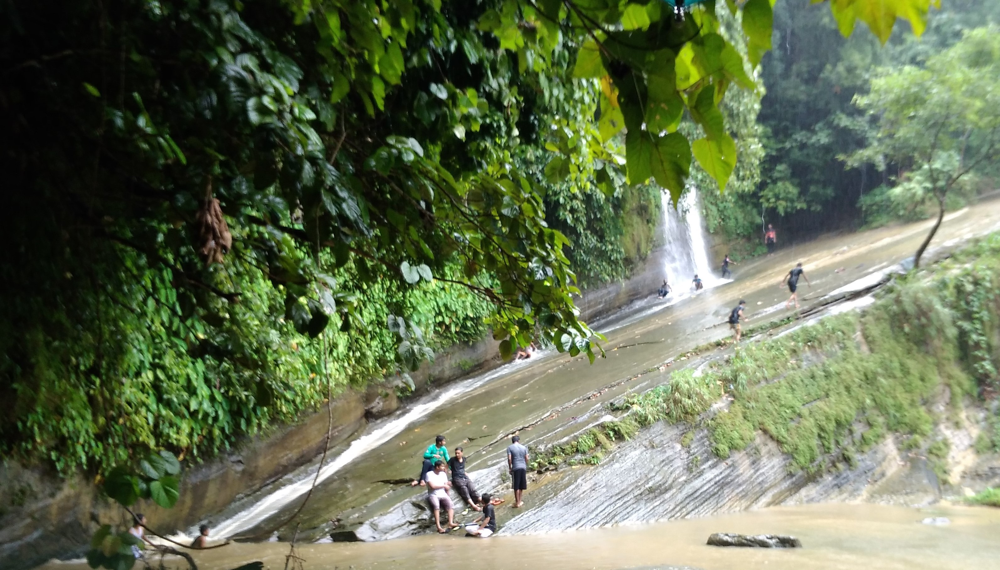 Risang Jhorna